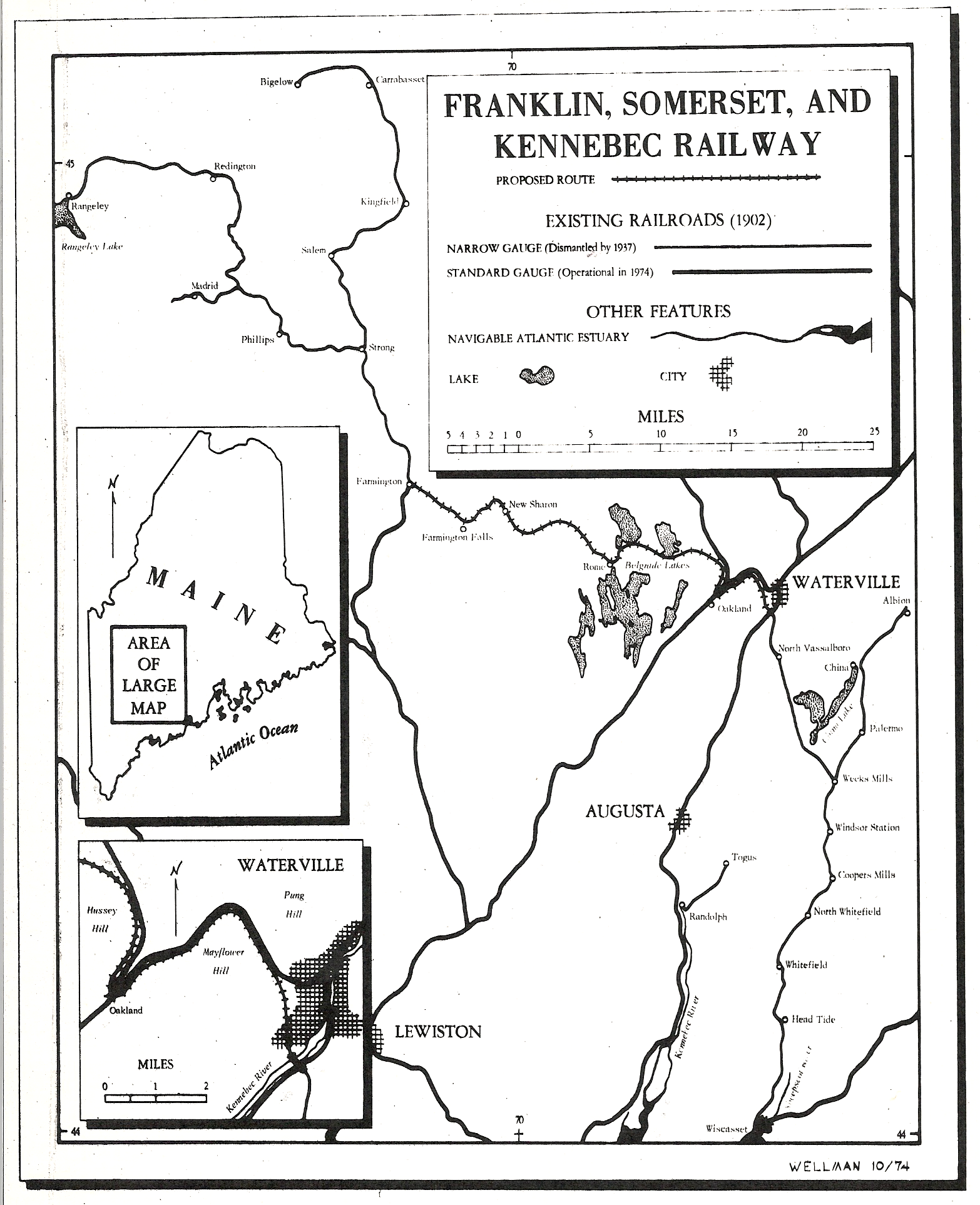 Map of the proposed 2-foot gauge Franklin, Somerset and Kennebec Railway which would have connected the Wiscasset, Waterville and Farmington Railway with the Sandy River Railroad.